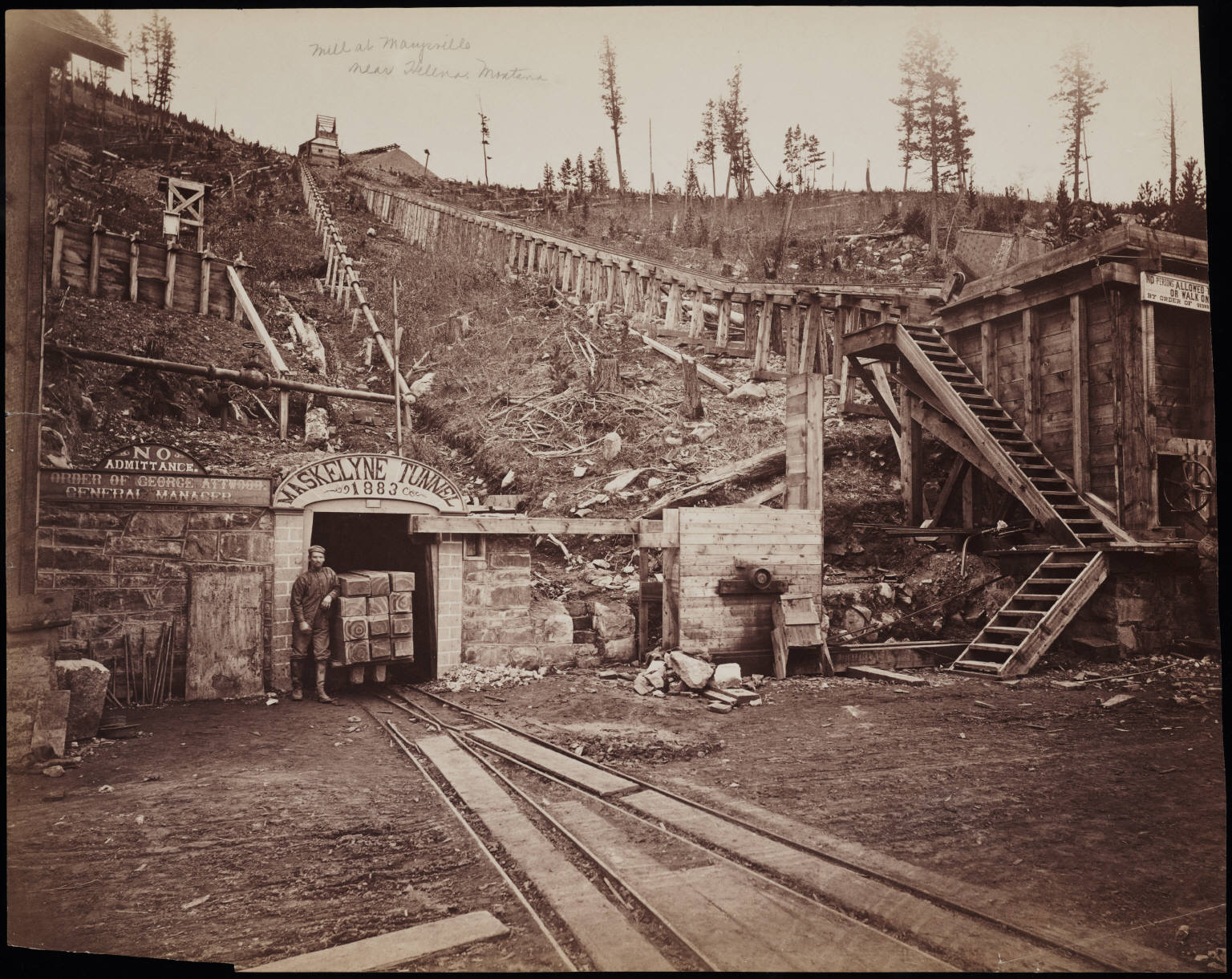 "View of mines at Marysville, Montana, including the Maskelyne Tunnel, established 1883, of the Drumlummon mine," mammoth plate photograph by American photographer Carleton E. Watkins. Courtesy of the Yale Collection of Western Americana, Beinecke Rare Book and Manuscript Library, Yale University, New Haven, Conn.